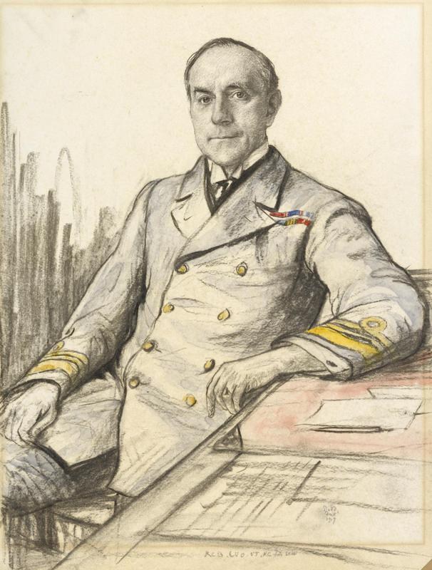 Vice-admiral Sir Reginald Godfrey Otway Tupper, Kcb, Cvo image: a three quarter length portrait of Vice Admiral Sir Reginald Tupper in uniform, seated with his left arm resting on a table.